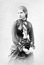 Maryja Magdalena Radzivił (Zaviša)